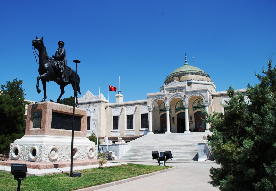 Ethnography Museum of Ankara